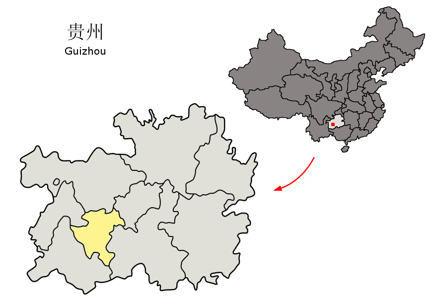 Location of Anshun Prefecture (yellow) within Guizhou province of China Map drawn in november 2007 using various sources, mainly : Guizhou province administrative regions GIS data: 1:1M, County level, 1990 Guizhou Counties map from